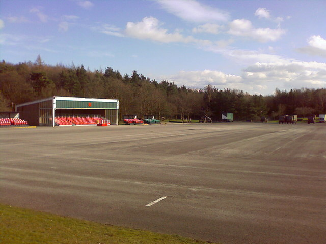 The parade ground at Helles Barracks Catterick Garrison